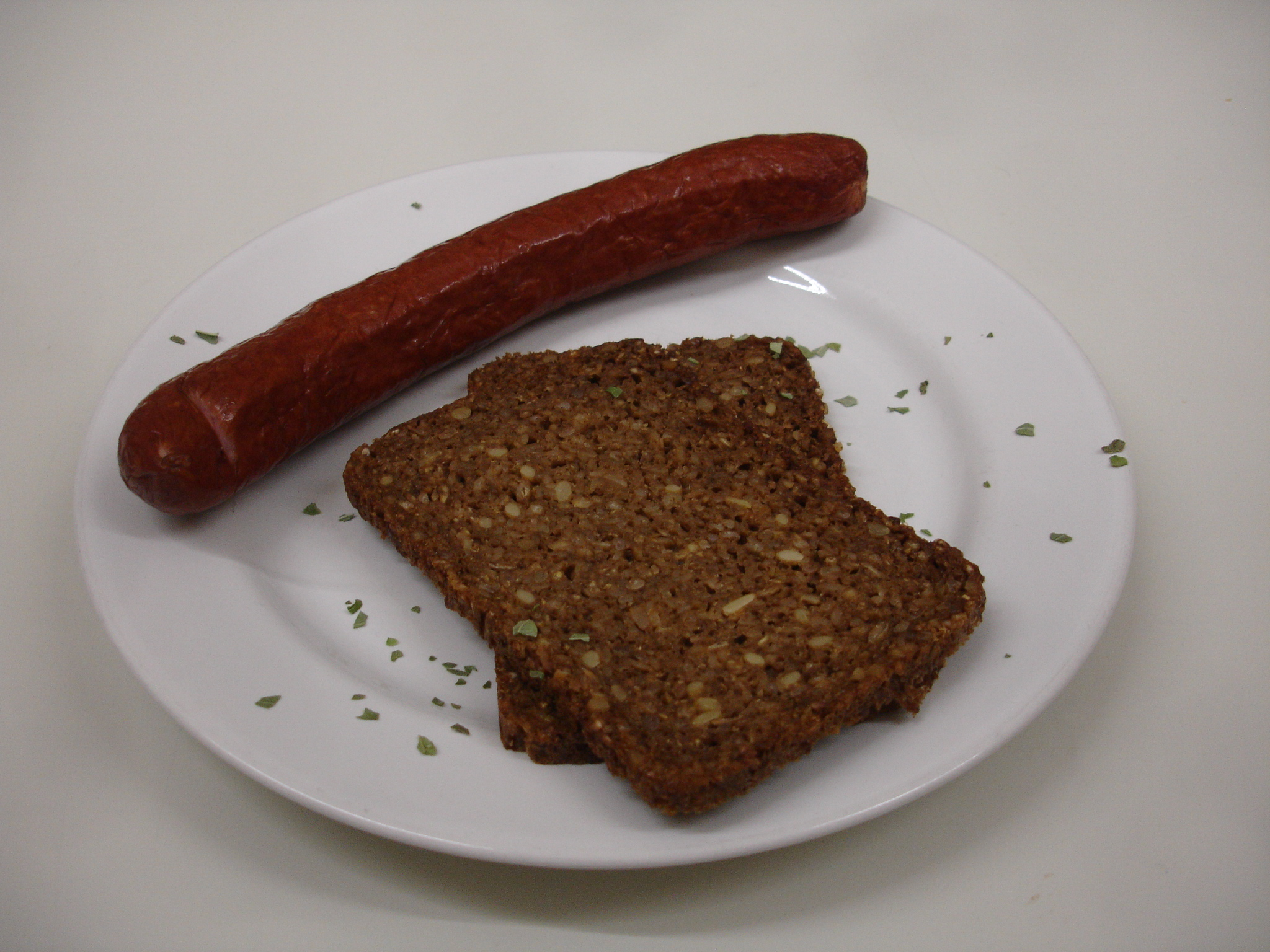 Pfefferwurst, a German sausage, and ryebread with sunflower seeds.